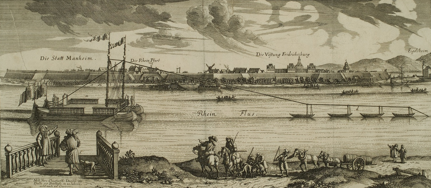 Flying bridge, reaction ferry Mannheim 1669, fortress Friedrichsburg, Rhine